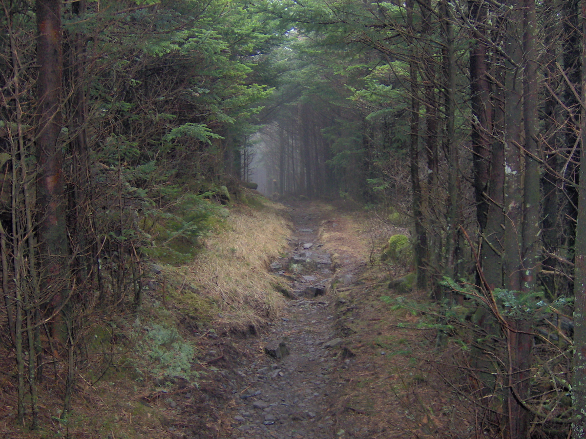 The Appalachian Trail crossing the northern slope of Mount Guyot in the Great Smoky Mountains. As human habitation never encroached very far into the Eastern Smokies, the highland conifer forest here remains very dense. This point is at an elevation of appx. 6,300 feet/1,920 meters. The elevation of Guyot is 6,621 feet/2,018 meters.